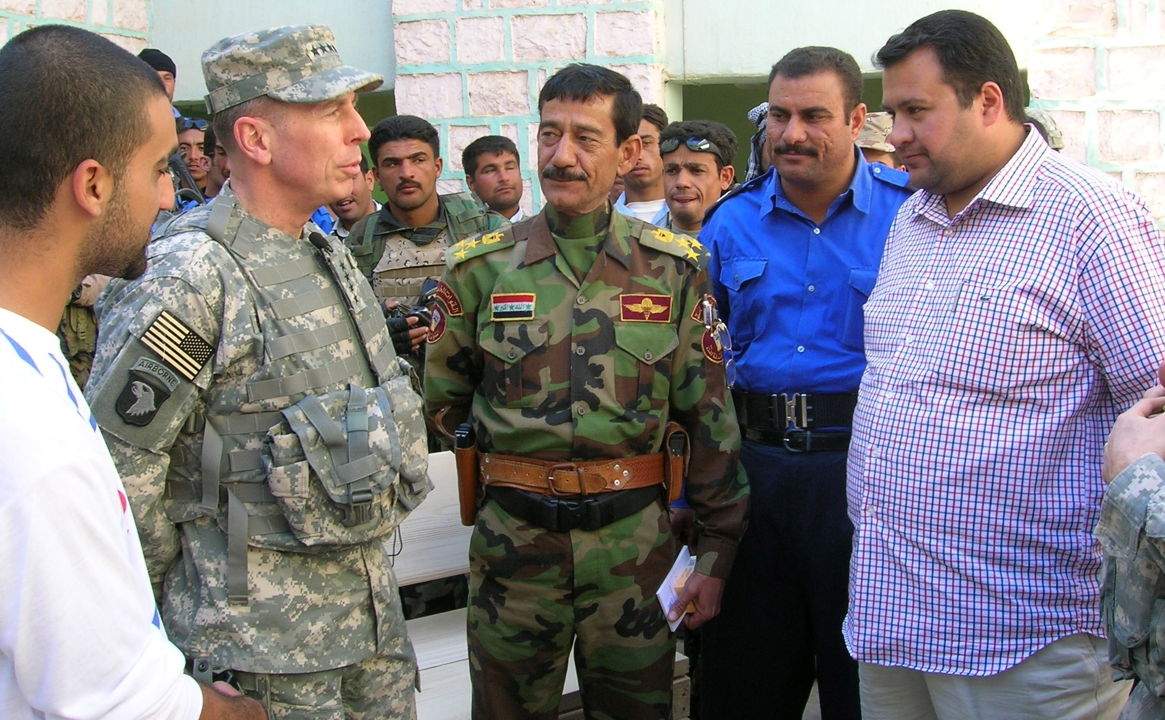 Gen. David H. Petraeus, commander, Multi-National Force - Iraq, visits Hit, Iraq. Petraeus is fond of mingling with Iraqi security forces and civilians, as well as U.S. and other coalition Soldiers.